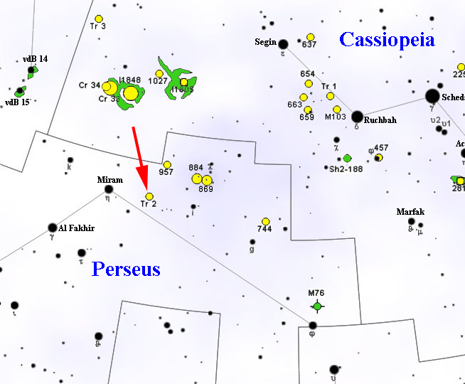 Map of Tr 2